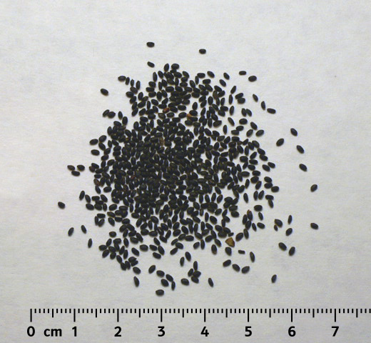 Dried basil seeds. Photo taken in Kent, Ohio with a Panasonic Lumix digital camera (model DMC-LS75). Basil seeds purchased in a Cleveland, Ohio-area Indian grocery store. These seeds are referred to in various languages as sabja, subja, takmaria, tukmaria, falooda, or hột é.